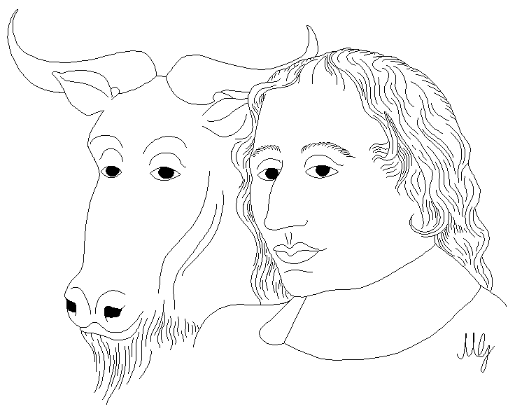 GNU Pascal Drawing (Verbatim copying and distribution is permitted in any medium, provided that this notice and the disclaimer below are preserved.)